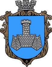 Coat of Arms of Khmilnyk (Vinnytsia Oblast Ukraine)